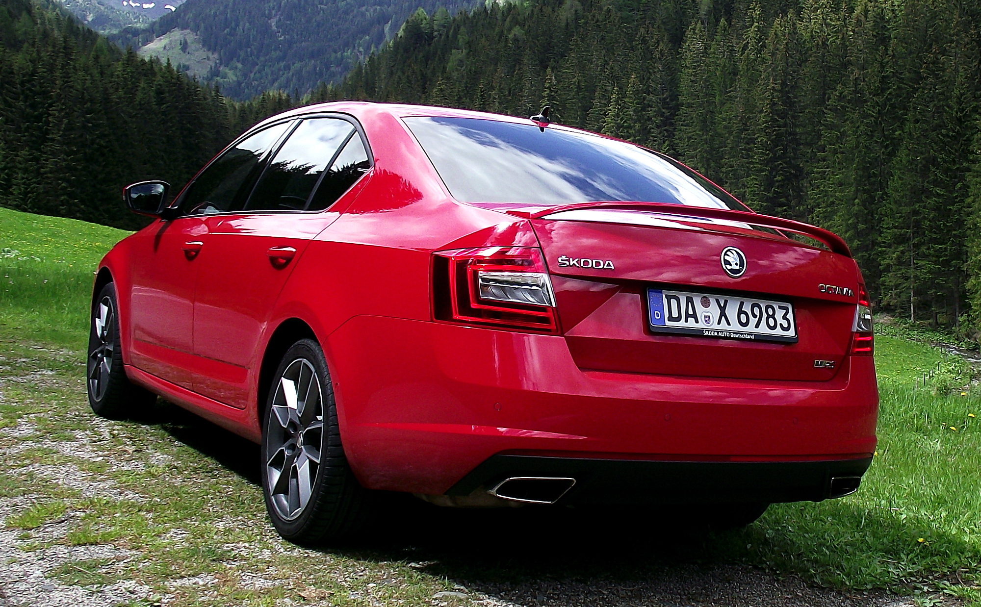 Škoda Octavia III RS (Typ 5E) 2.0 TSI Rio Red Rear View Nockalm Street